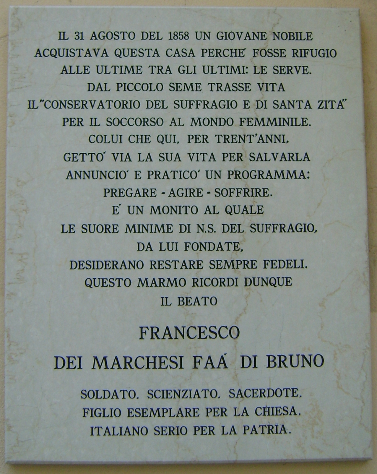 Plaque on the house of Francesco Faà di Bruno, Turin (Italy)